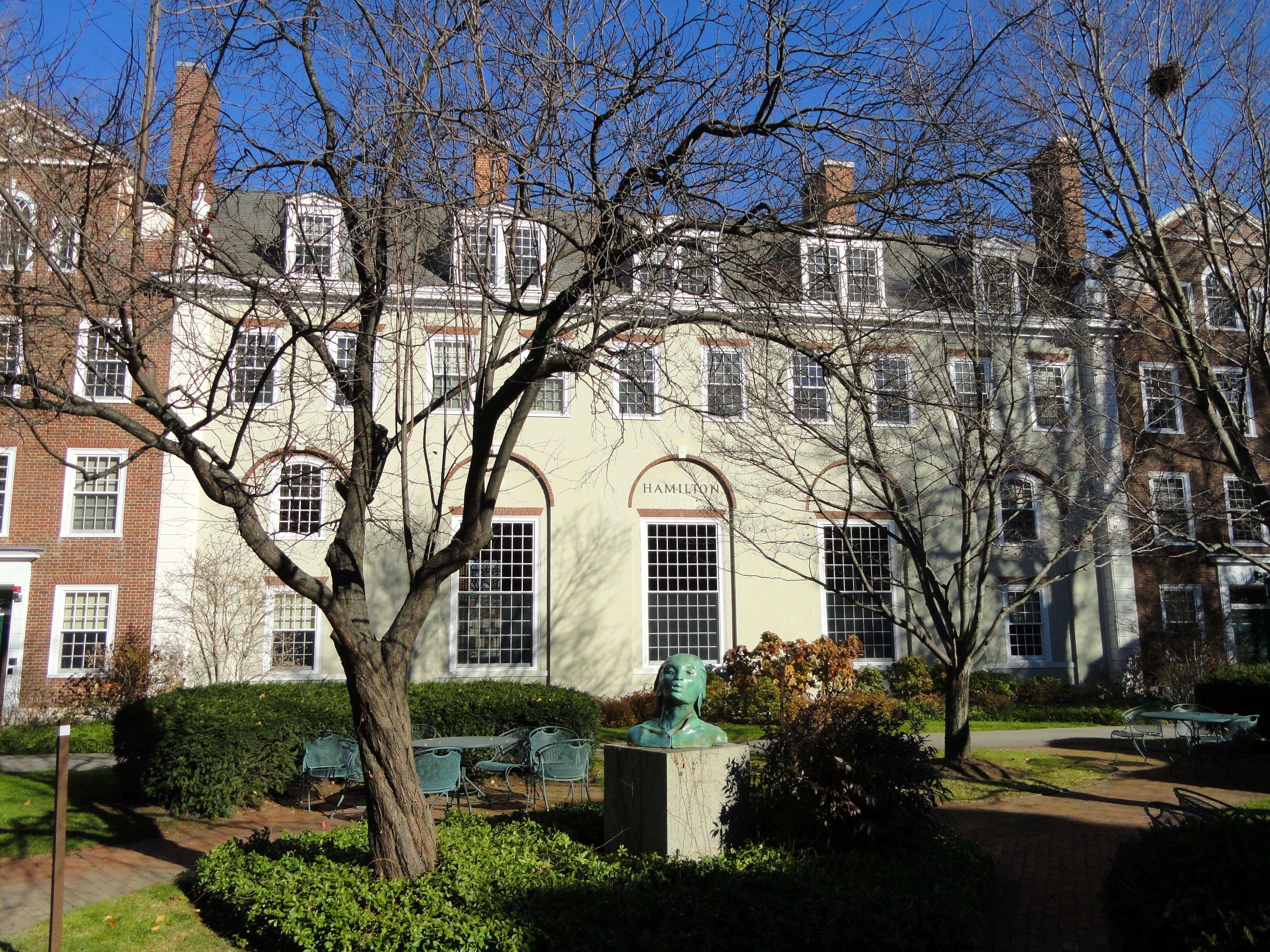 Harvard Business School, Allston, Boston, Massachusetts, USA.